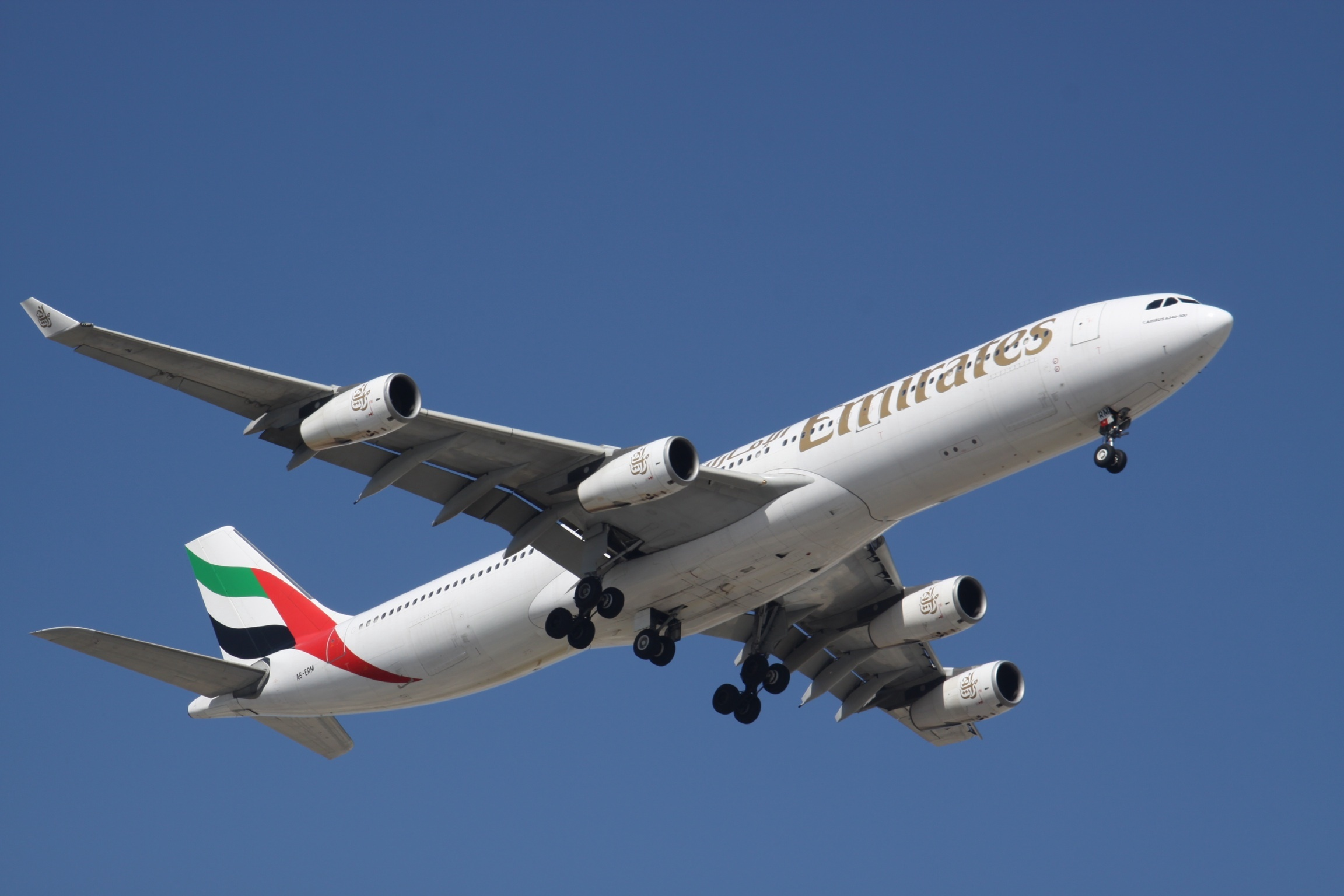 At Dubai